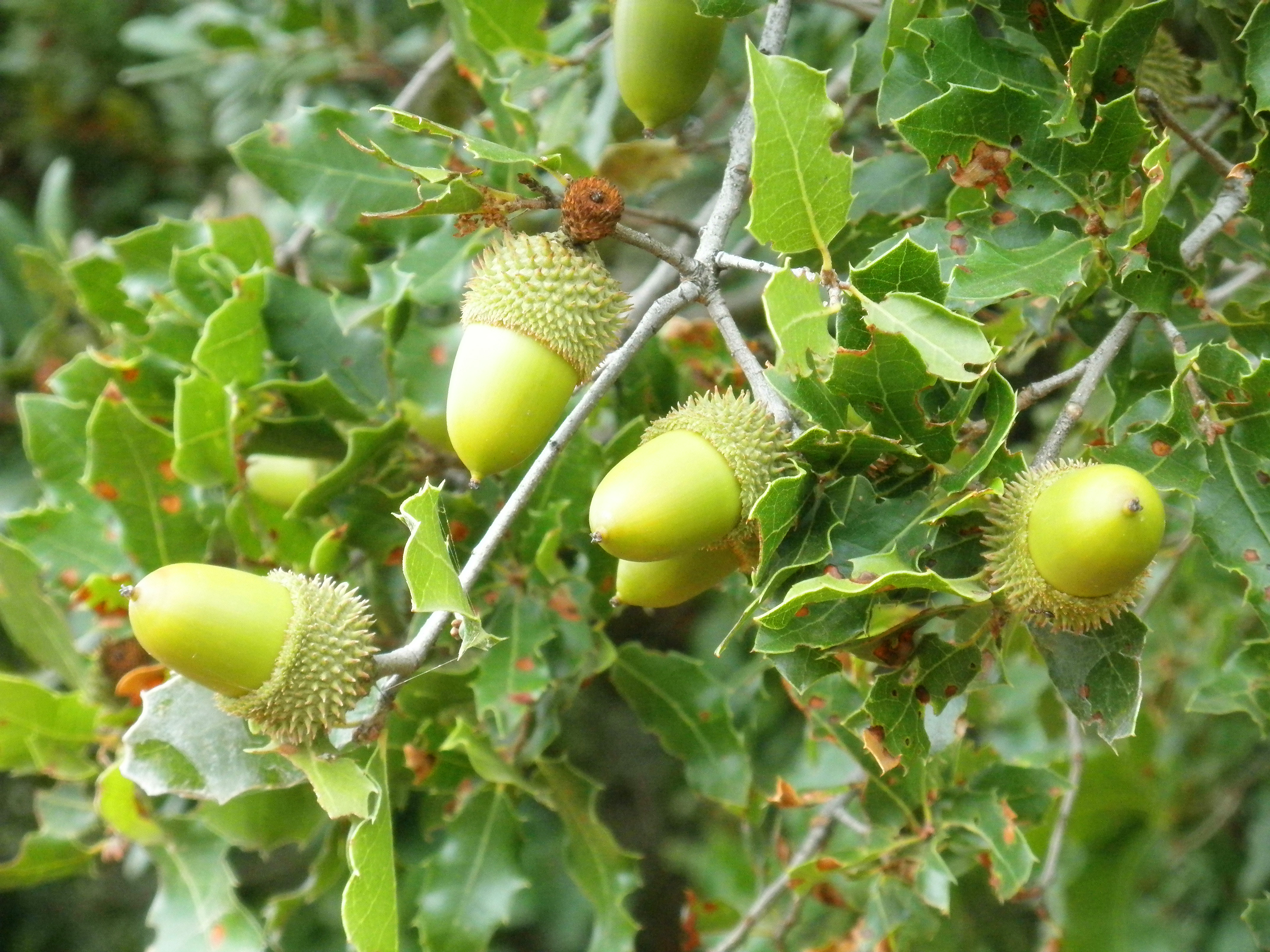 Quercus coccifera close up, Dehesa Boyal de Puertollano, Spain